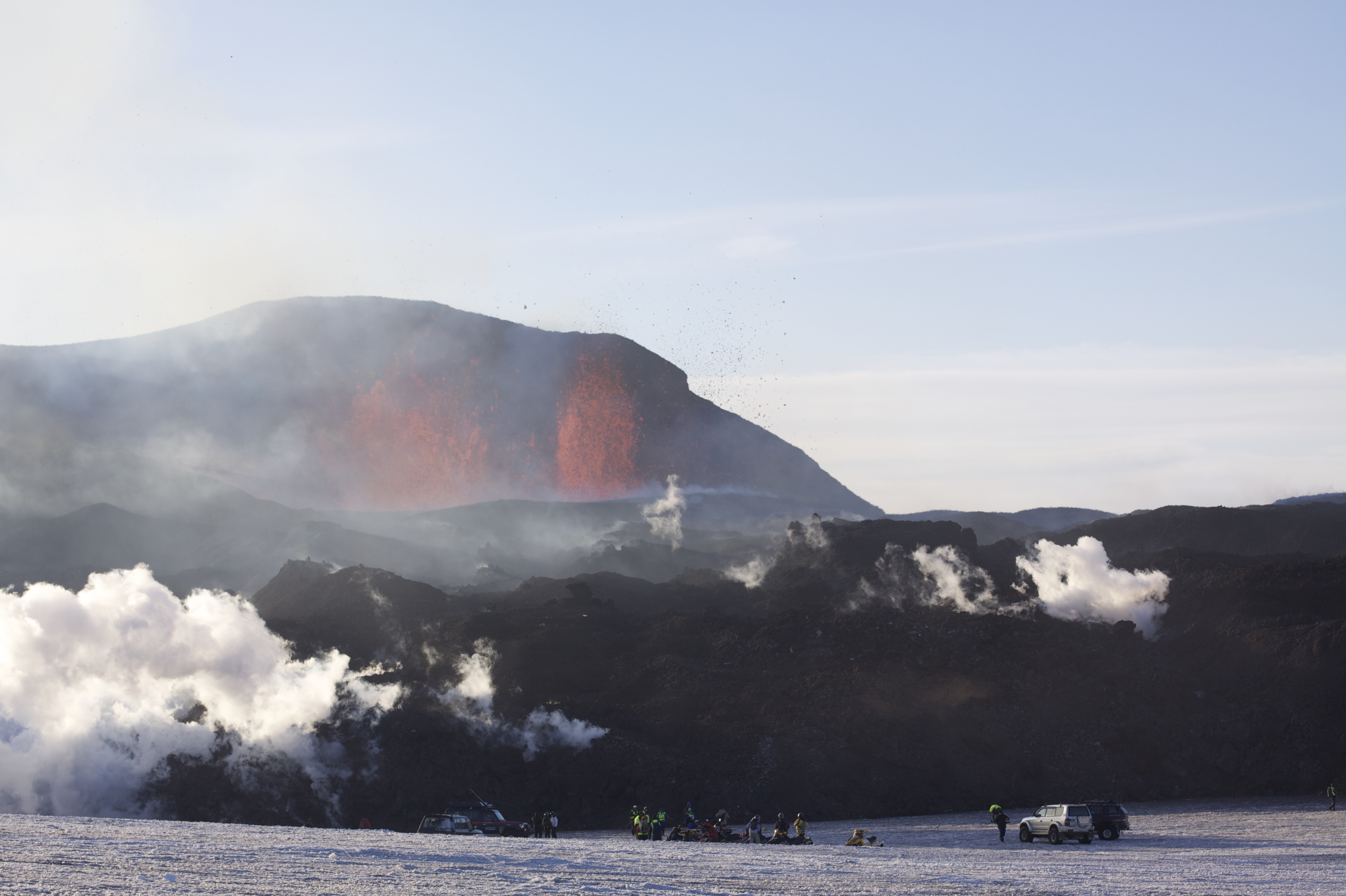 People admiring the volcano eruption at Fimmvörðuháls, Iceland